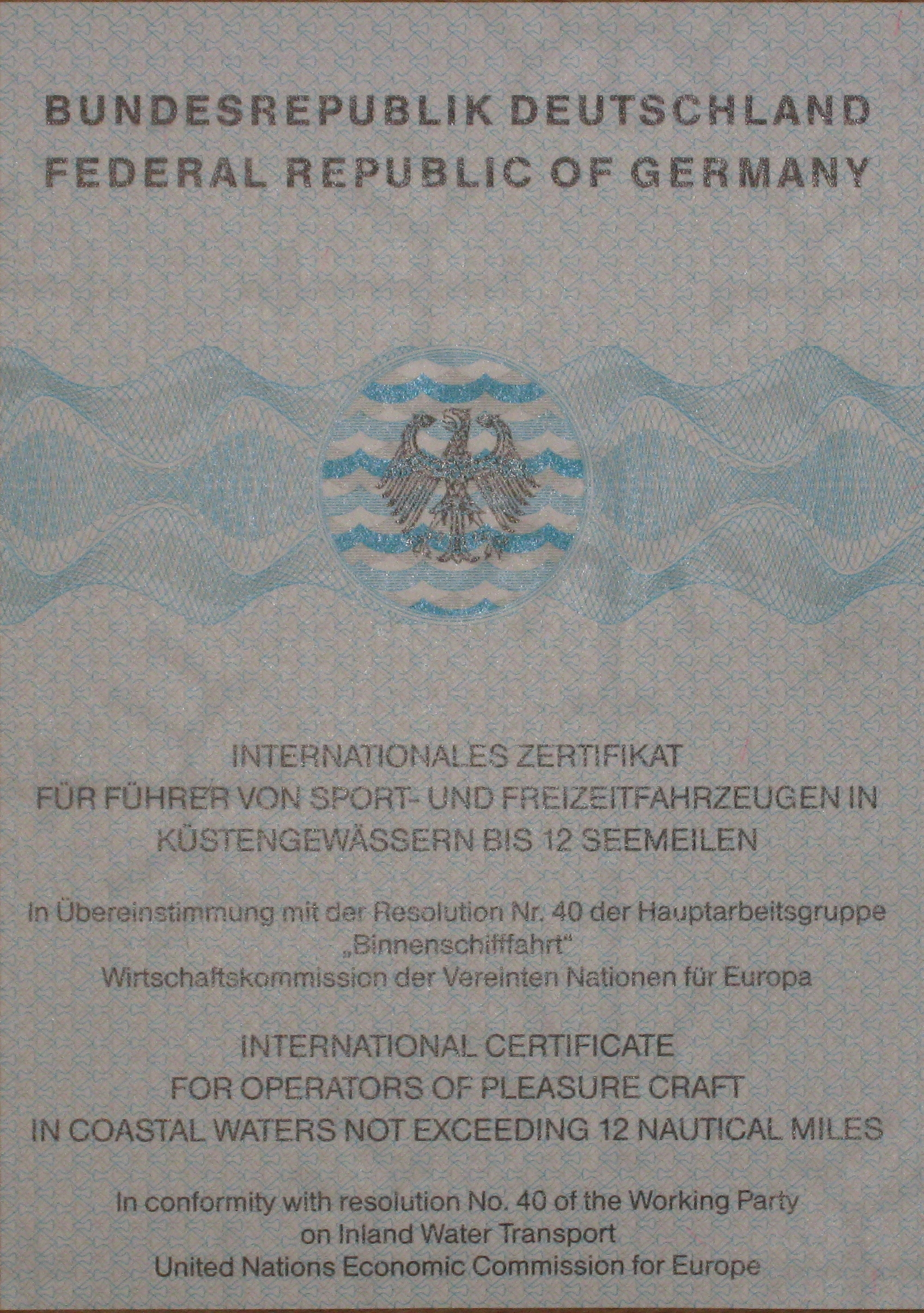 ICC SKS